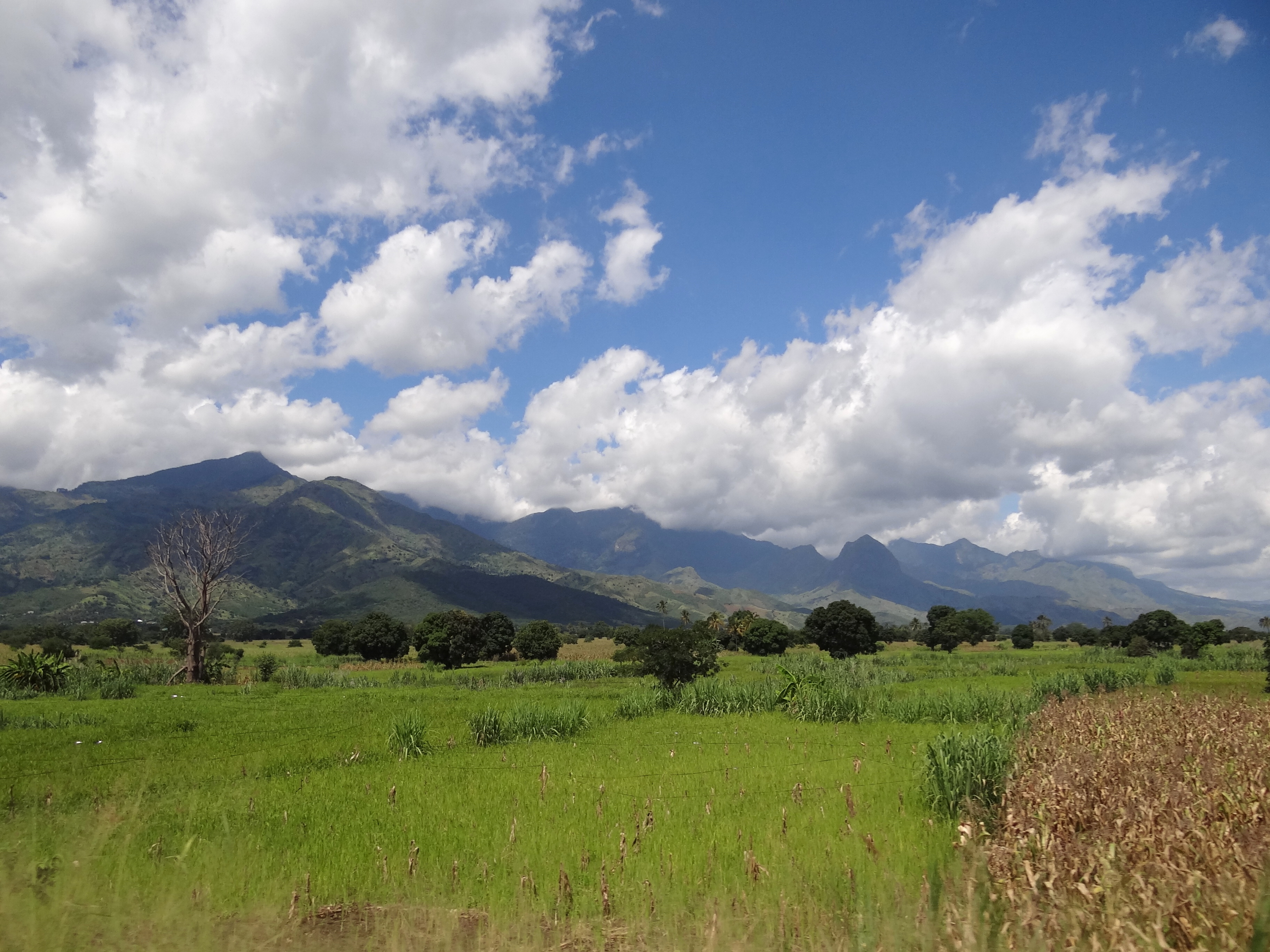 Scenery near Morogoro - Southern Highlands - Tanzania - 01